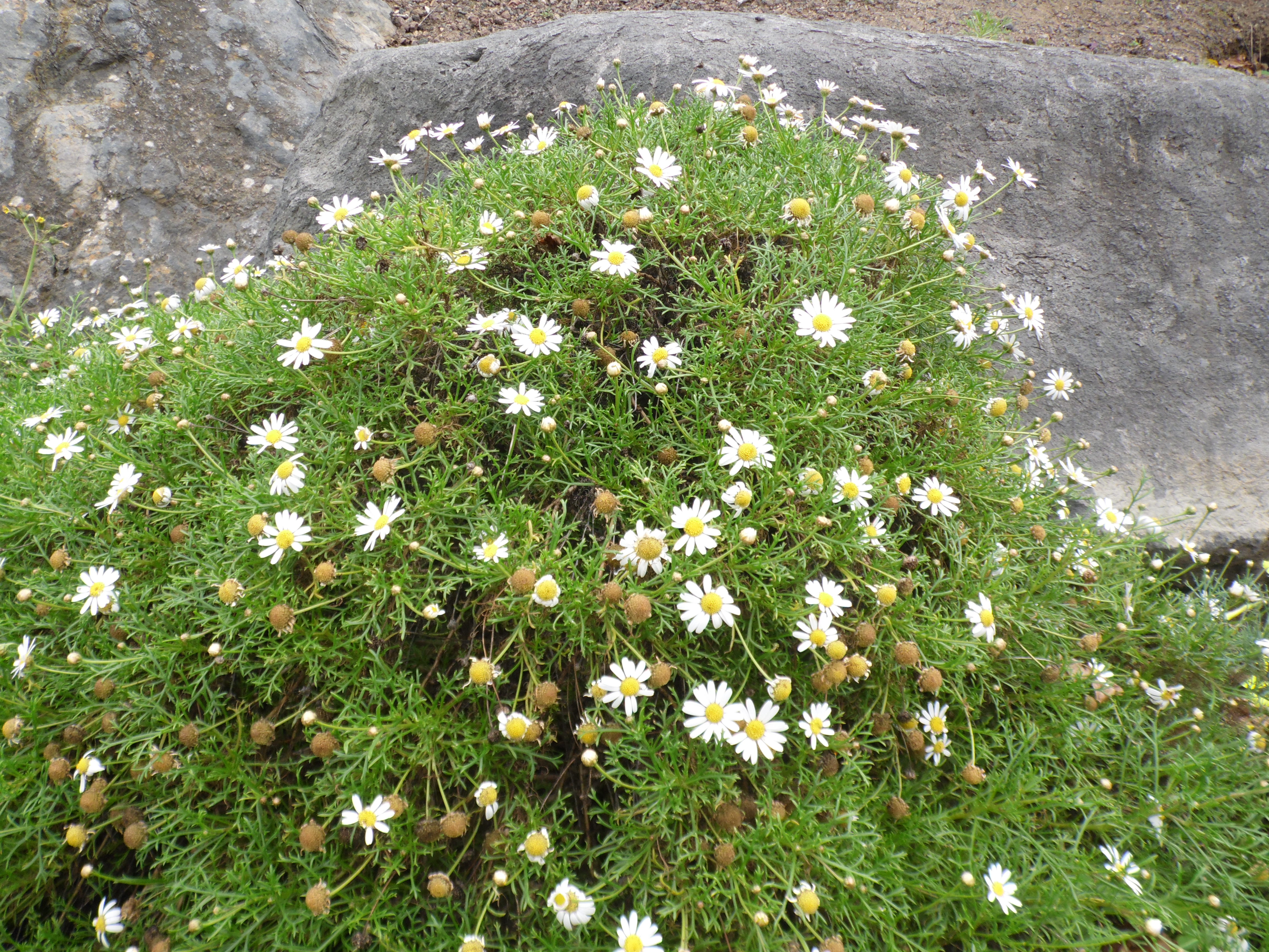 Argyranthemum winteri in Jardín Botánico Canario Viera y Clavijo